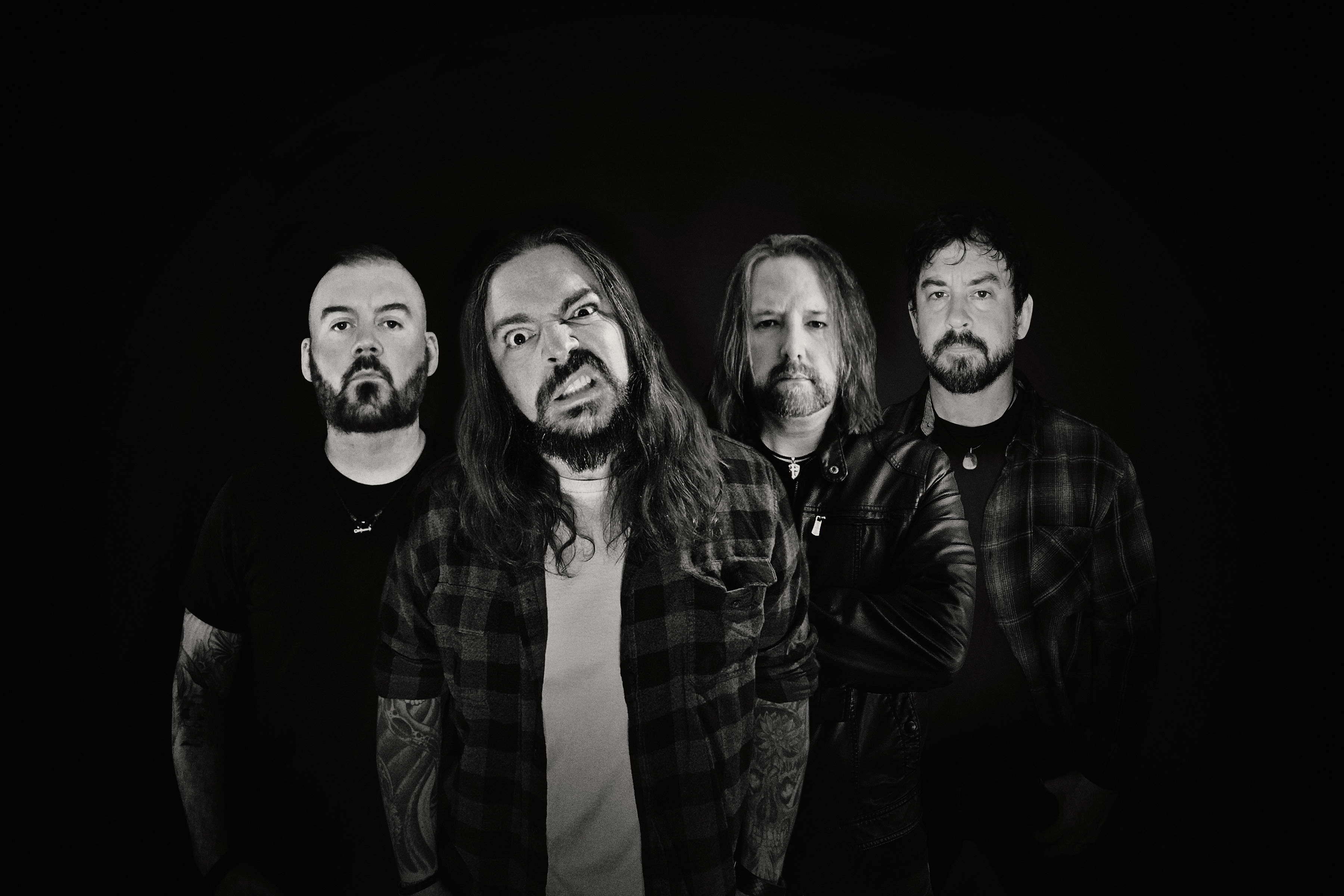 group photo of Seether band members in black and white